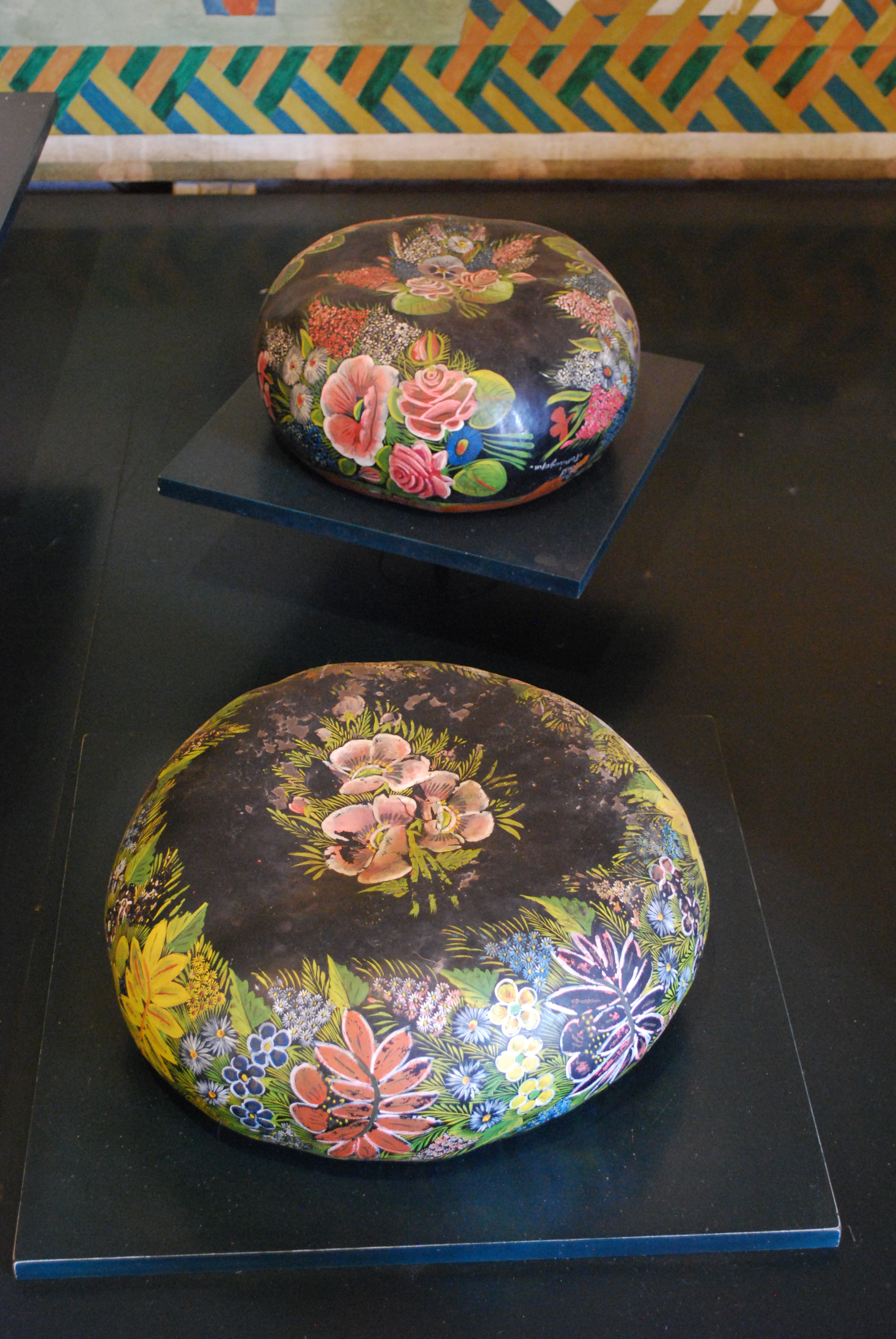 lacquered gourds at the Museo de Laca in Chiapa de Corzo, Chiapas, Mexico